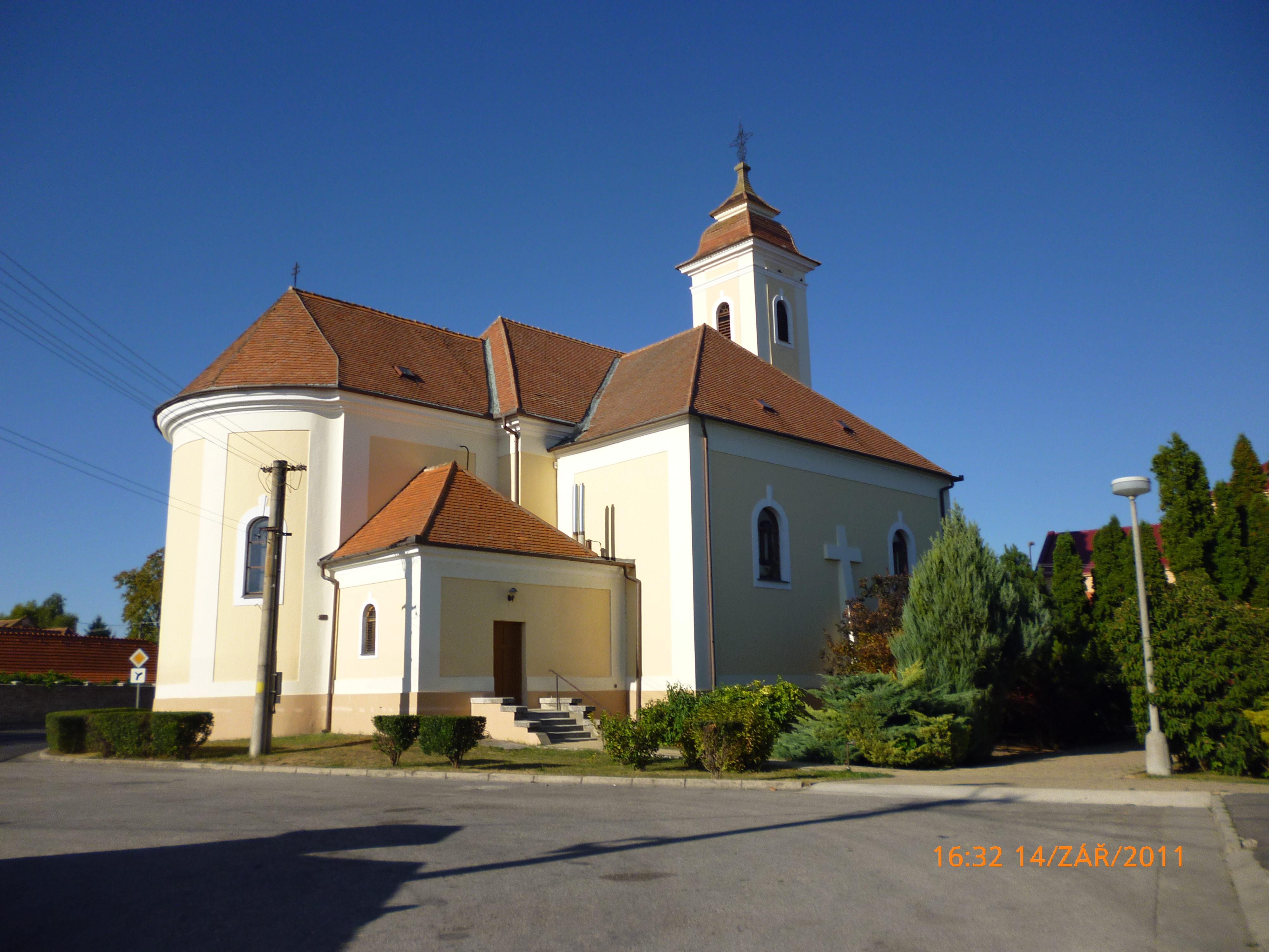 Church in Abraham - view from behind